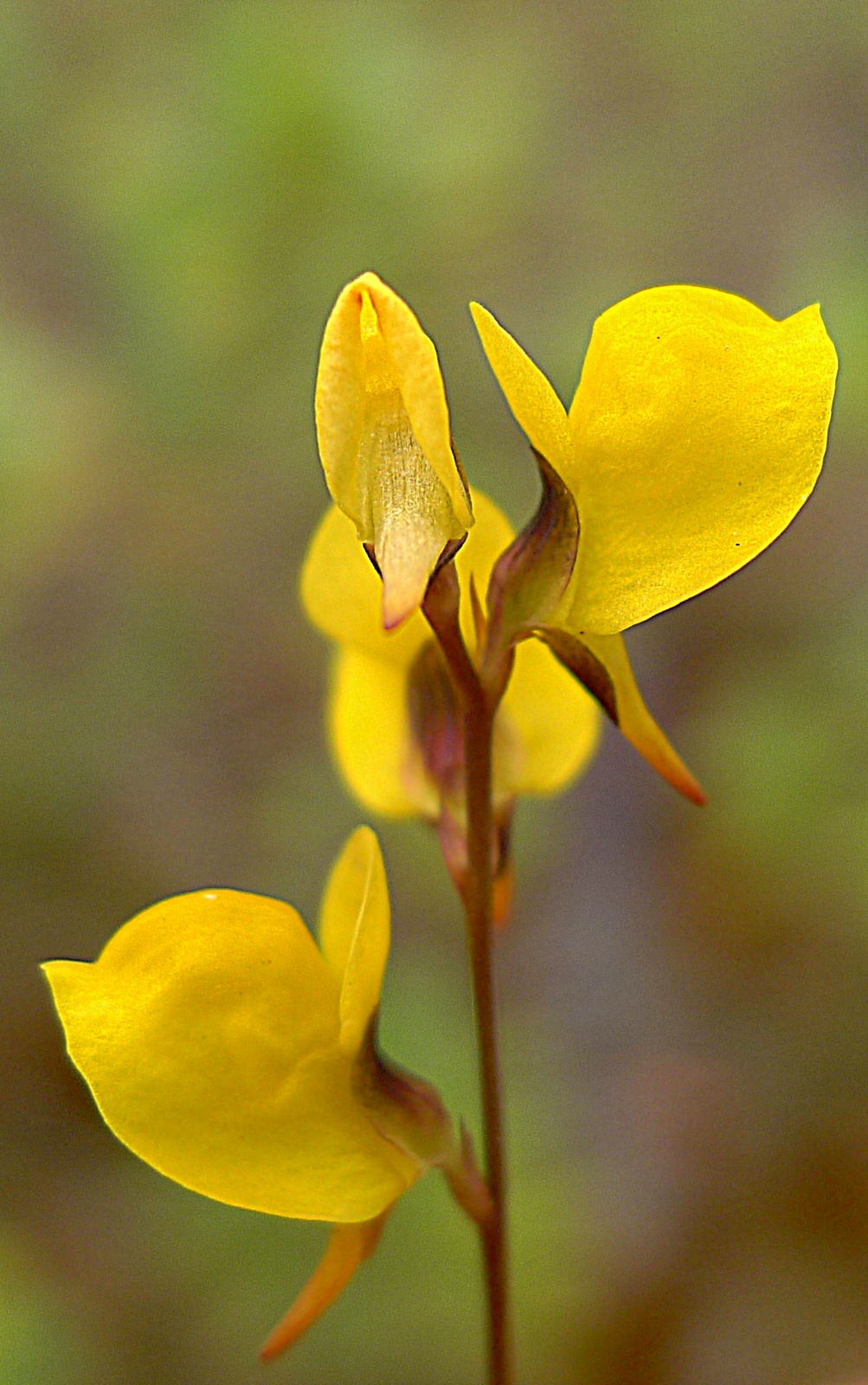 Utricularia juncea Vahl, Lentibulariaceae, Atlantic forest, northeastern Bahia, Brazil Herb 10 cm. Popovkin & Mendes 1260 (HUEFS).